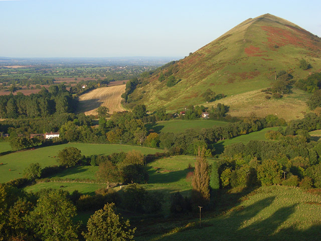 Pastures, Comley A patchwork of small fields between The Lawley and the viewpoint on Little Caradoc.